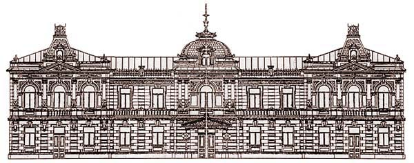 A reproduction of the architectural draft of Liberman manor in Kyiv